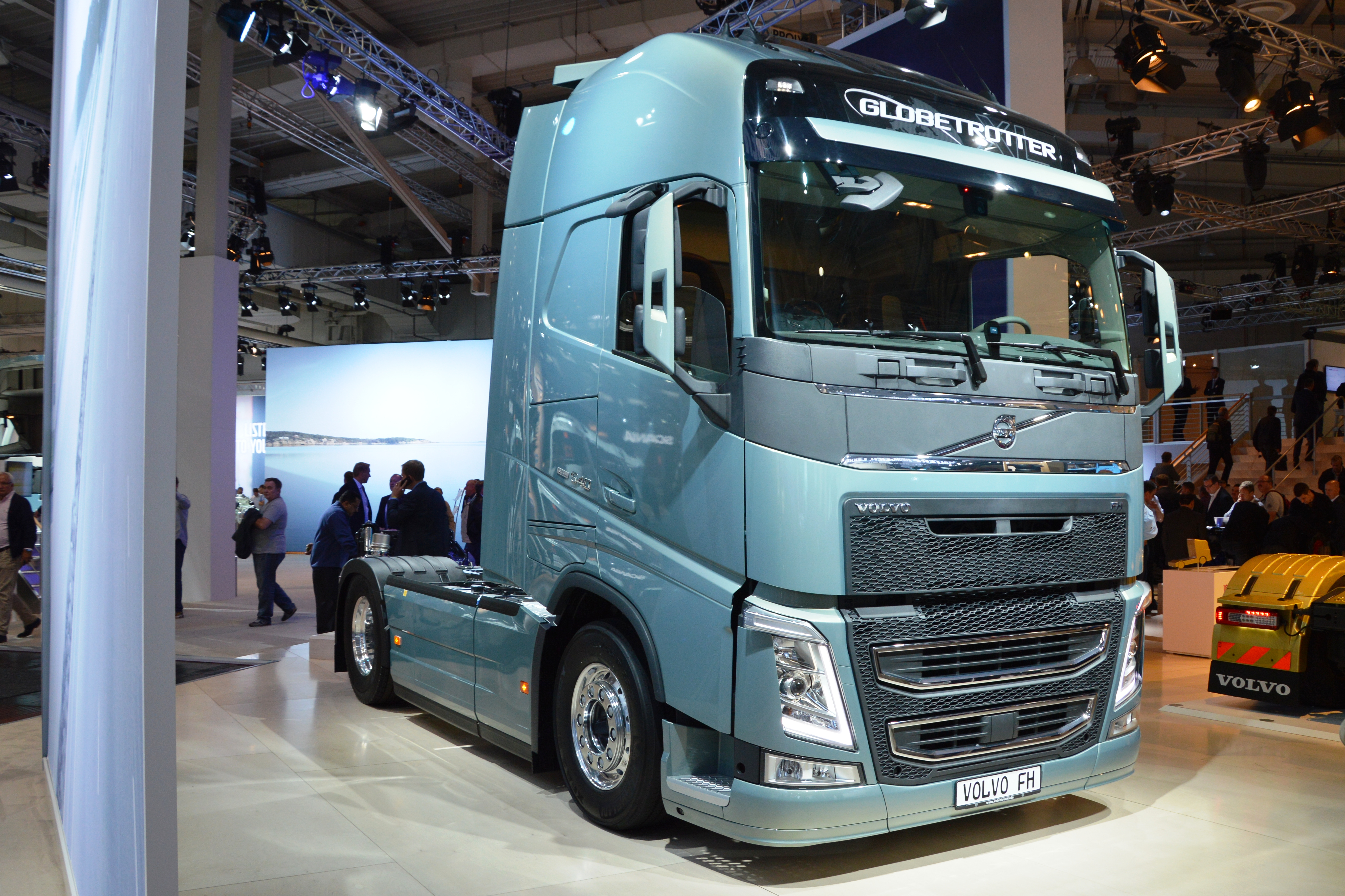 Volvo FH 540 truck tractor 4x2. Engine: Volvo D13K540 (Euro 6). Performance: 405 KW / 551 PS. I-Shift Dual Clutch. Photo taken at exhibition IAA 2014 in Hanover, Germany